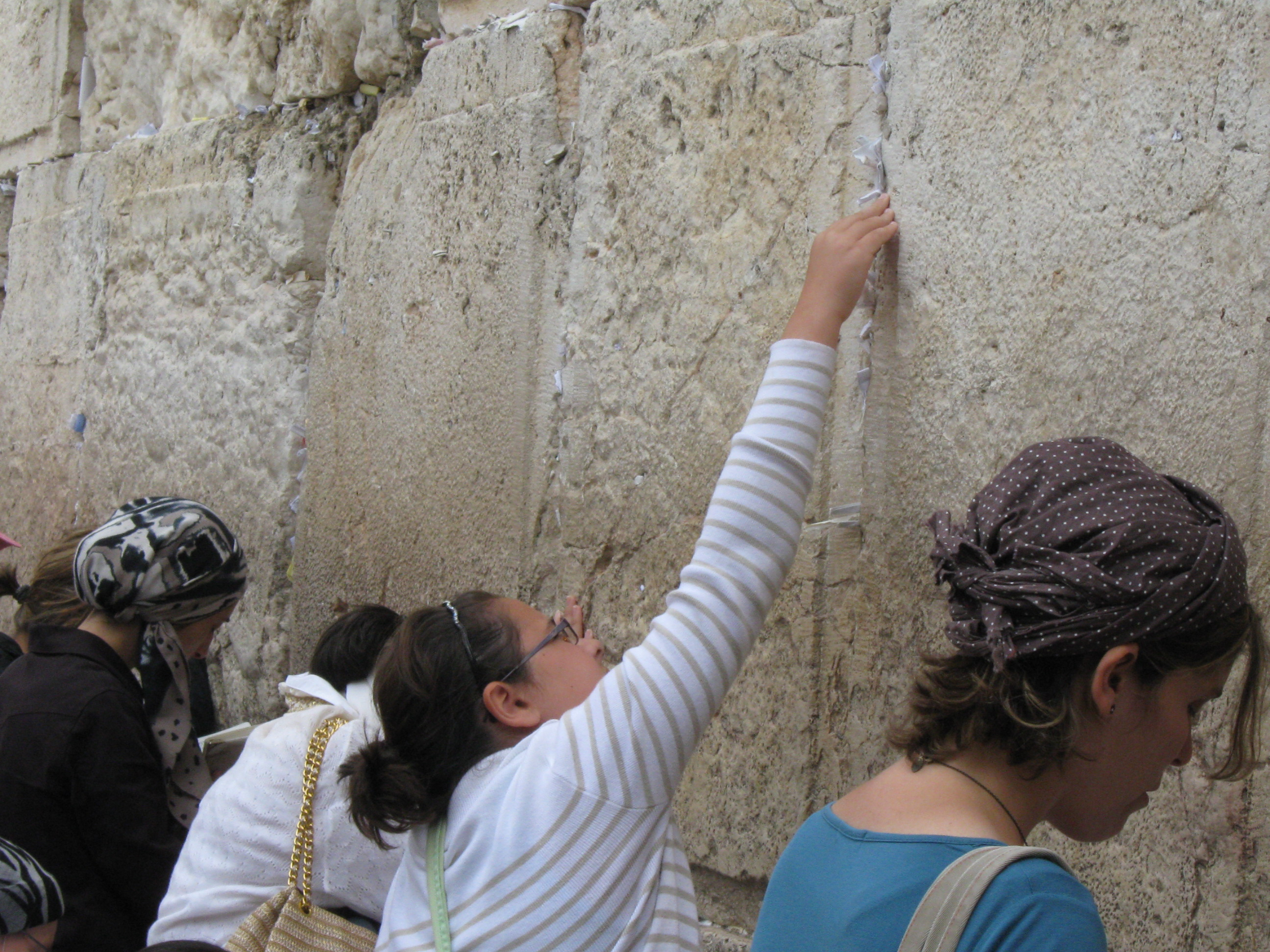 A girl places a kvitel (prayer note) between the cracks of the Western Wall in Jerusalem.